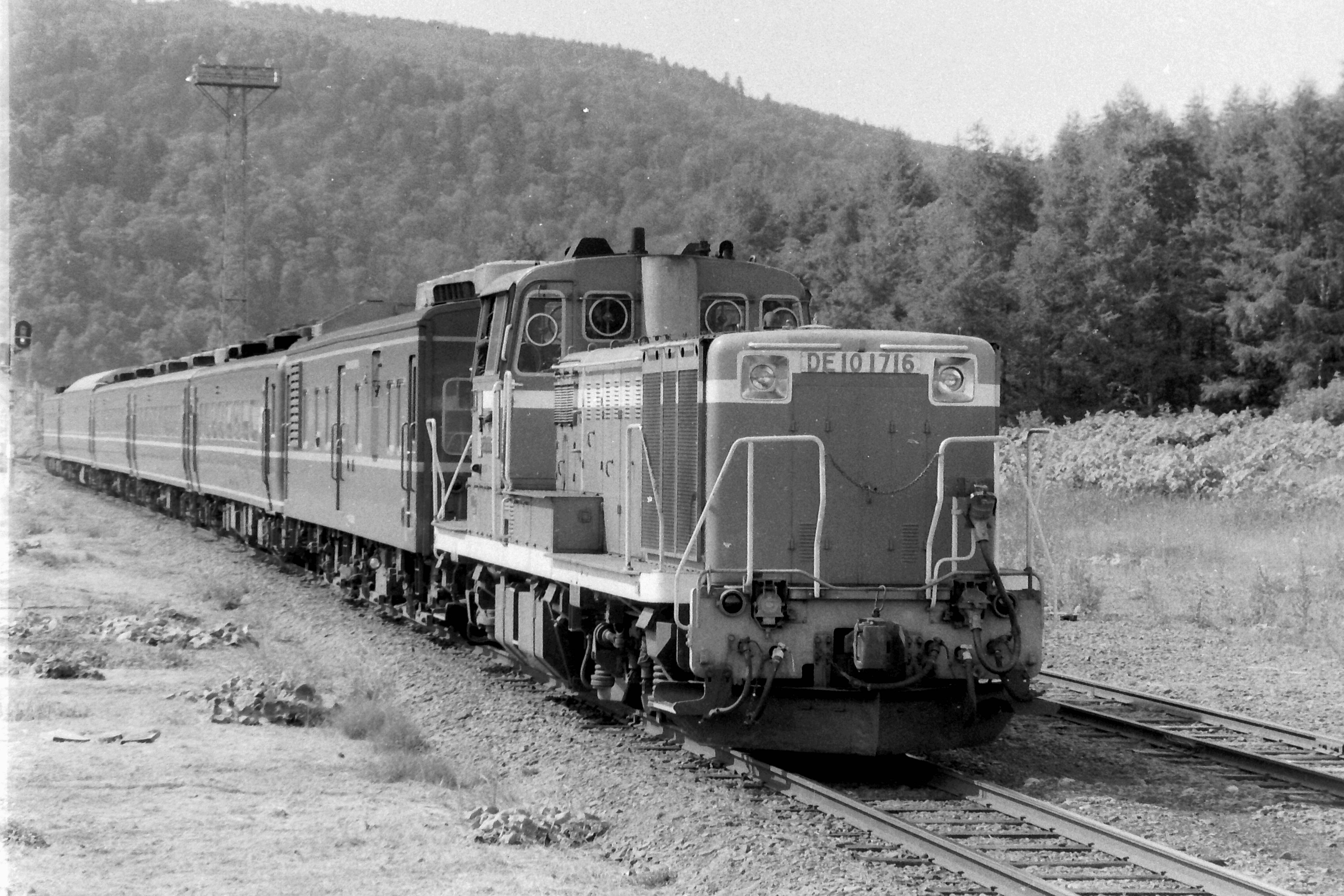 JR Hokkaido Tempoku Express approaching Otoineppu station. Even though the Tempoku line had announced to discontinute its service in the next year of the picture taken, a Maya 34 run on the line probably because the Maya run on Soya line on the same day.